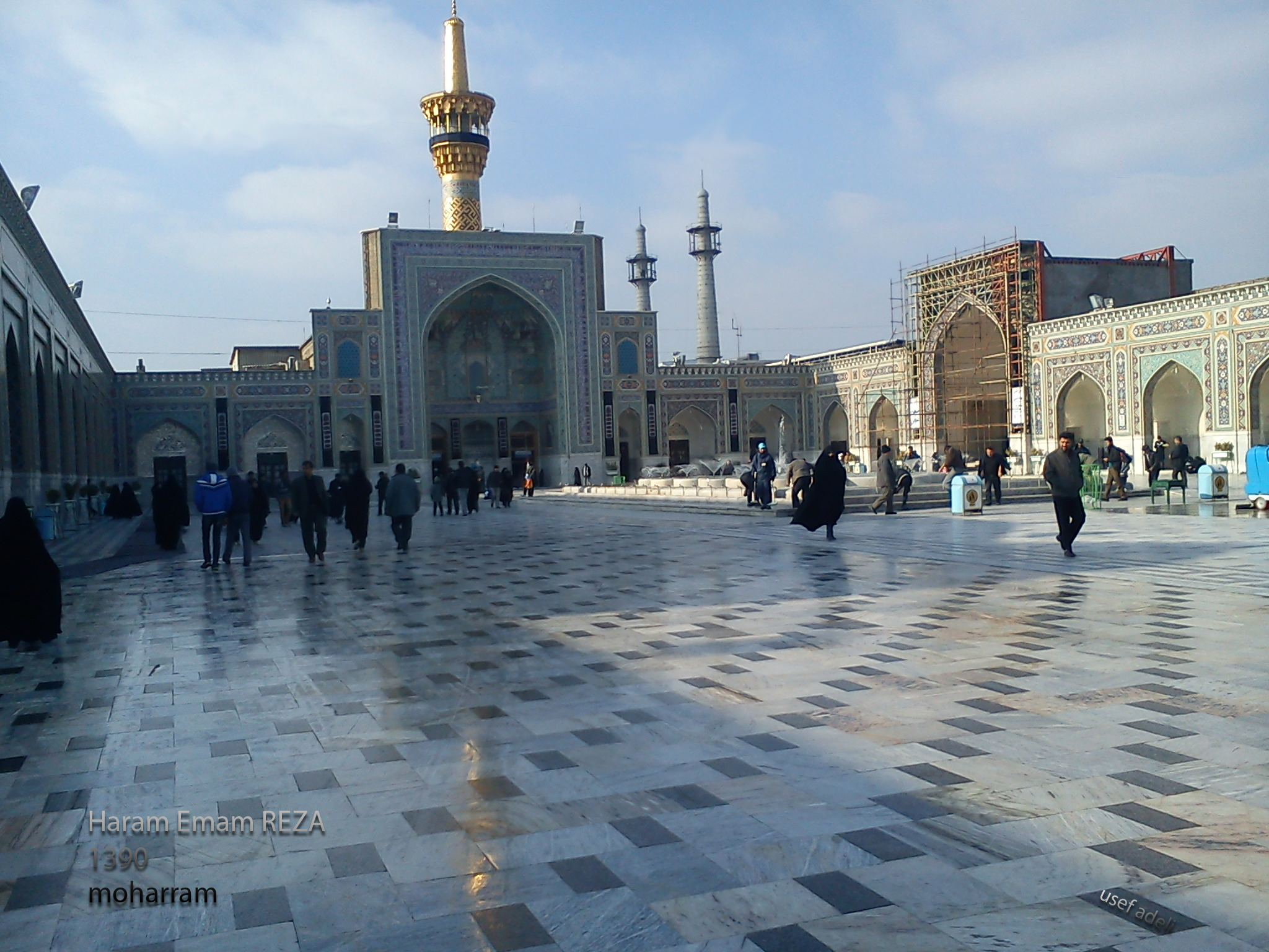 emam REZA